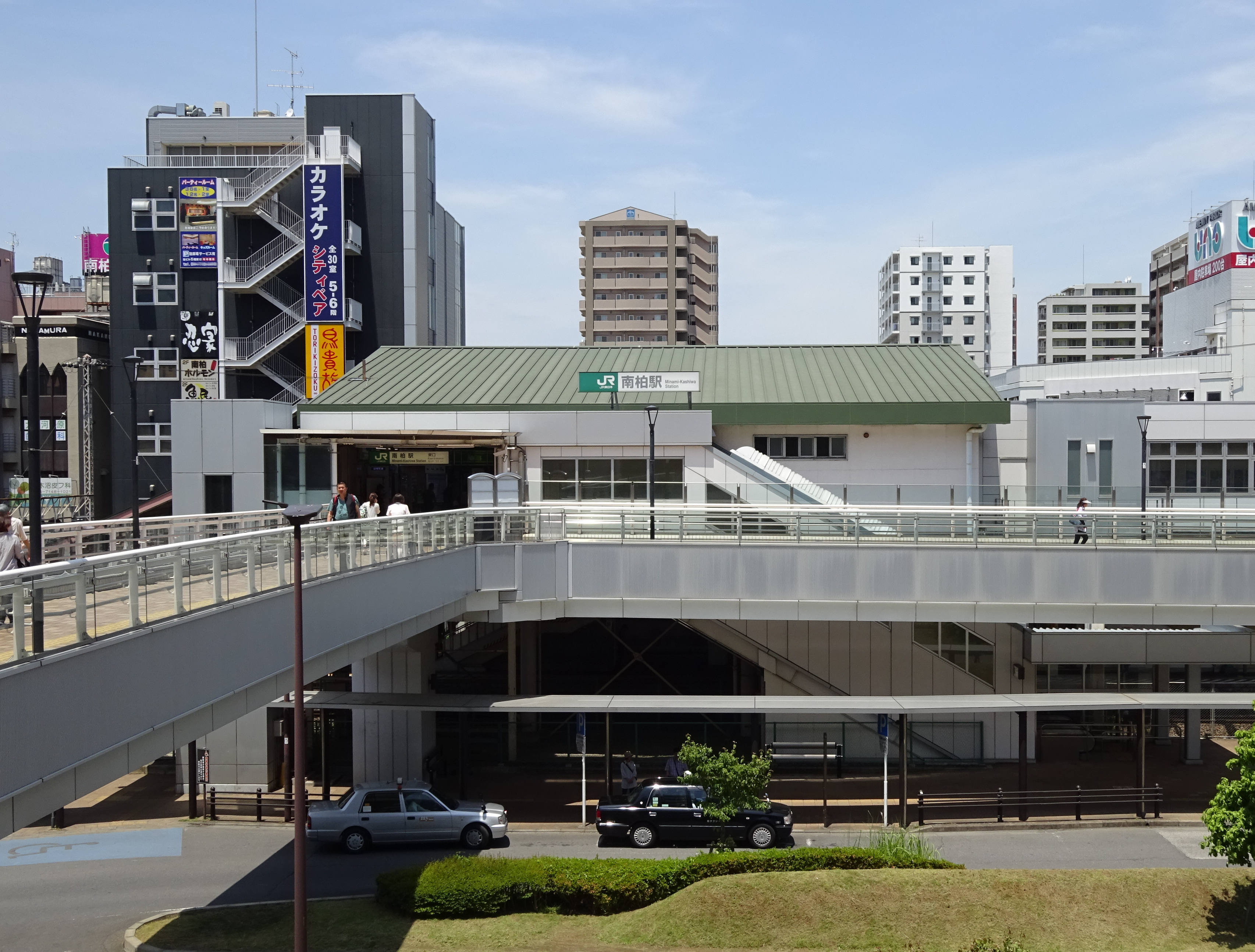 East entrance of Minami-Kashiwa Station